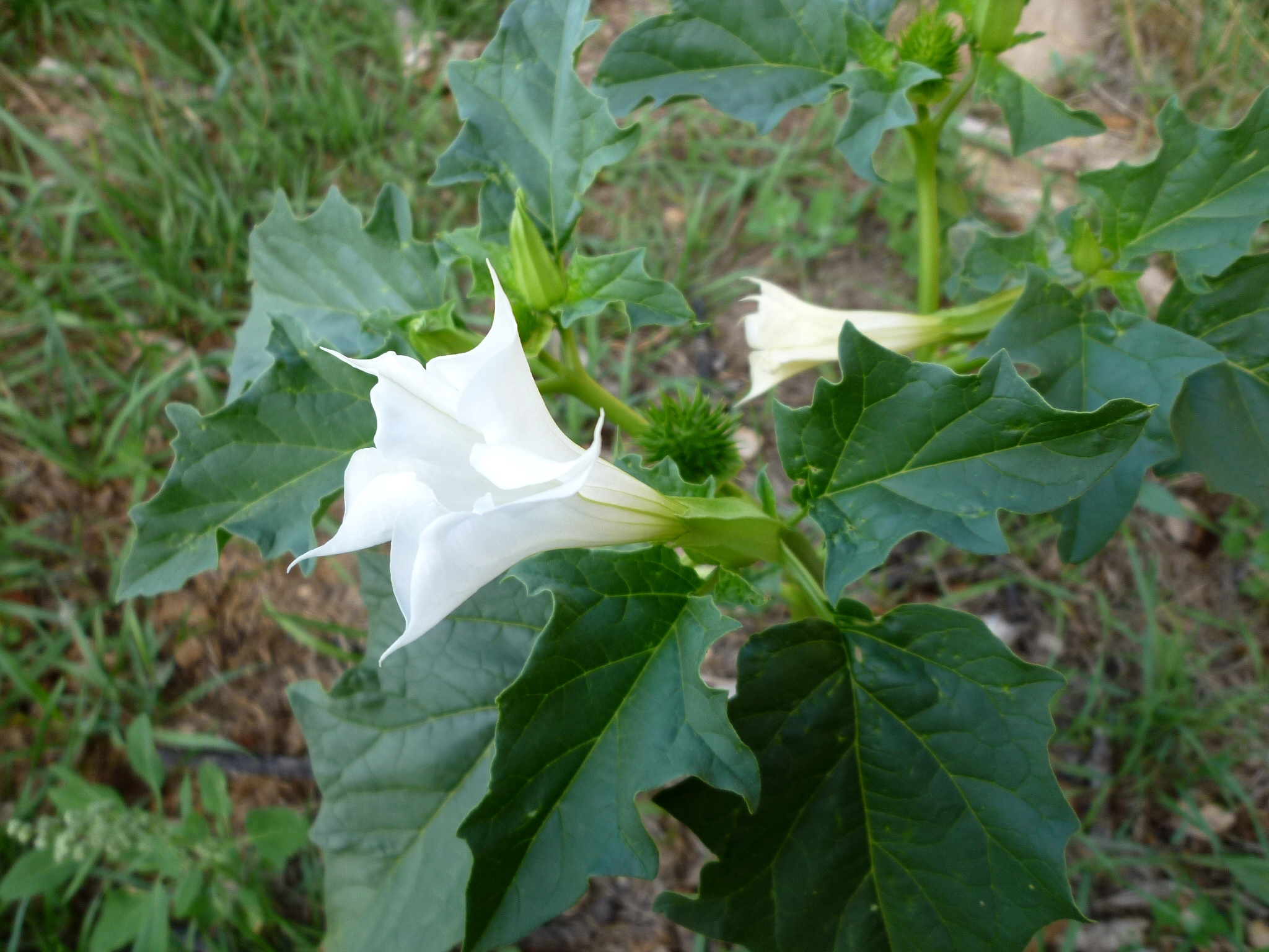 Datura stramonium. In Guixers (Solsonès-Catalunya). To 1205 m. altitude